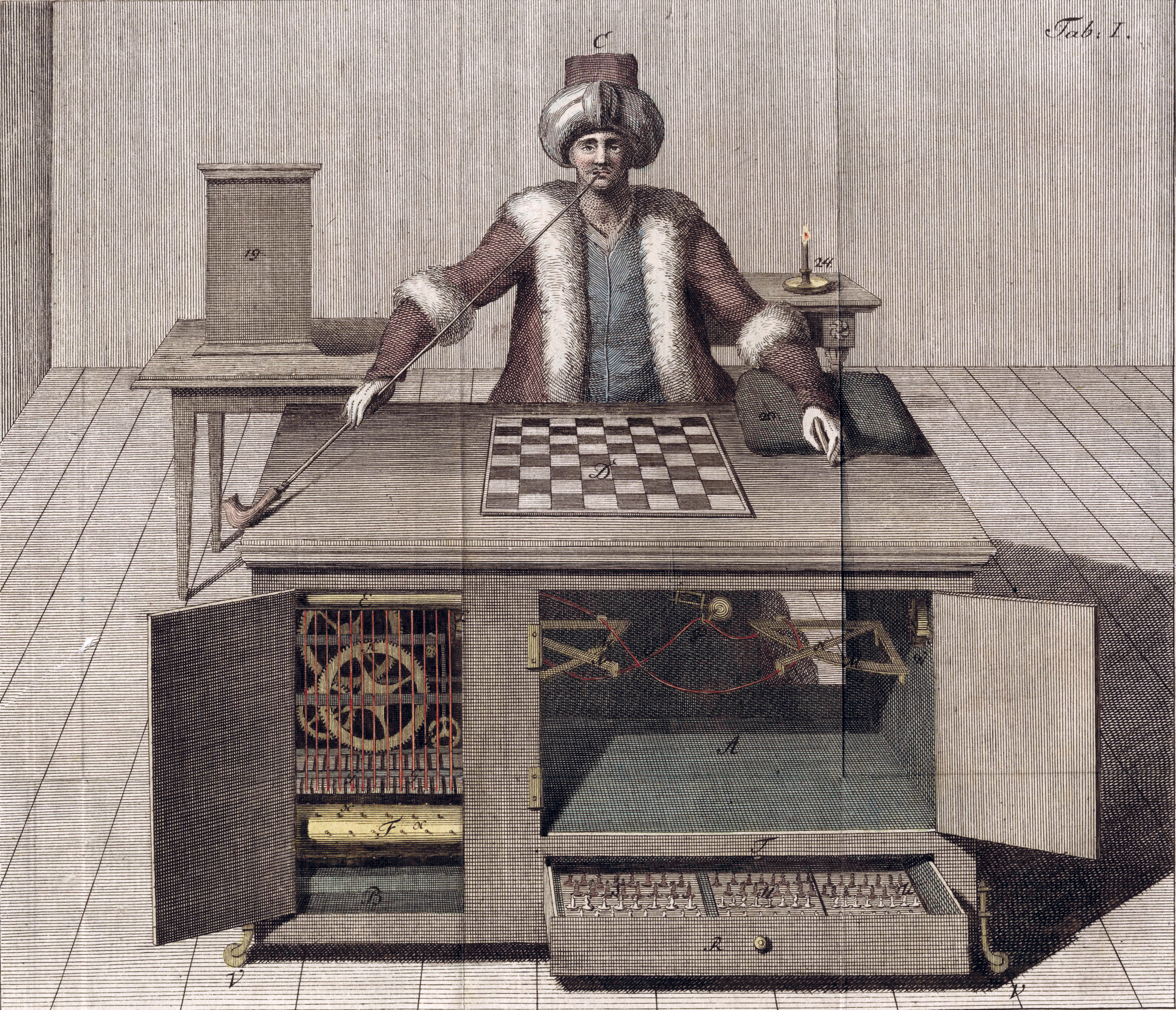 From book that tried to explain the illusions behind the Kempelen chess playing automaton (known as The Turk) after making reconstructions of the device.